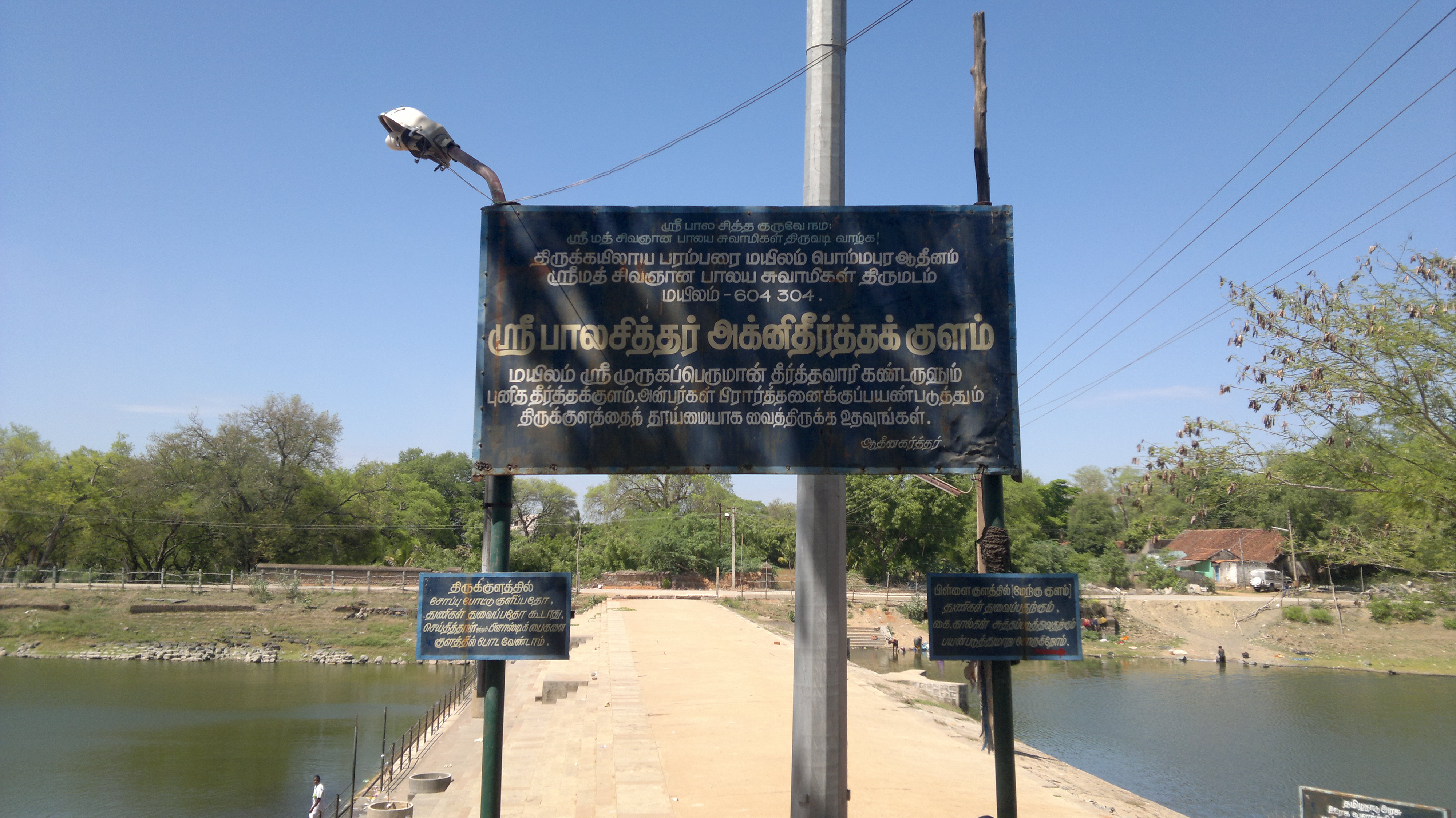 Temple Pond ( 1000 years older)